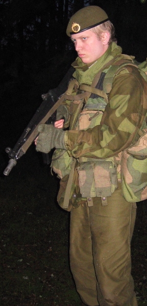 A Norwegian Army soldier, with MP-5 and gear.